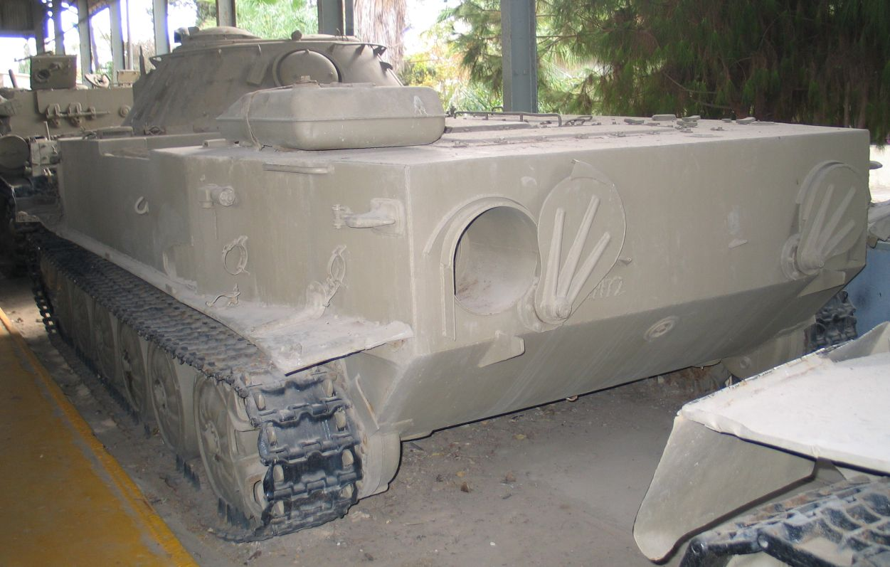 Description: PT-76 tank in Batey ha-Osef museum, Tel Aviv, Israel. 2005. Source: Photo by me, User:Bukvoed.